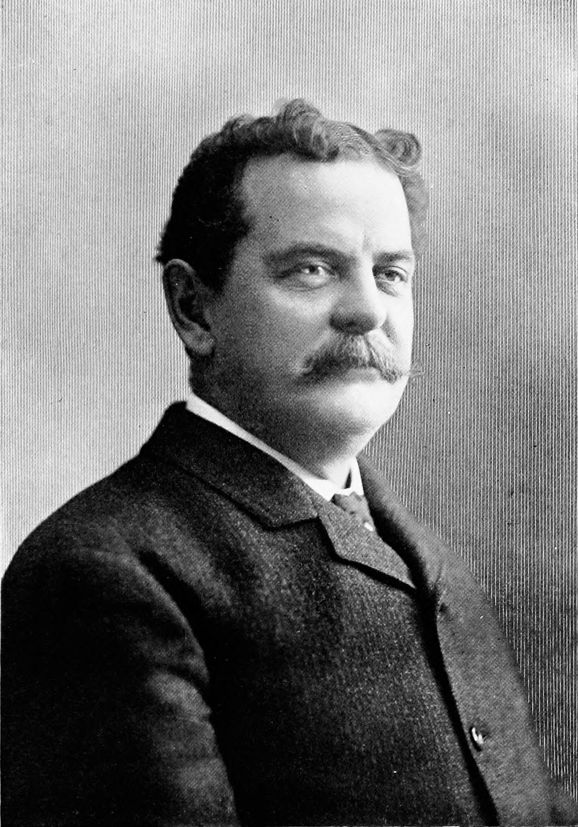 Charles S. Francis (1853–1911), American journalist and diplomat